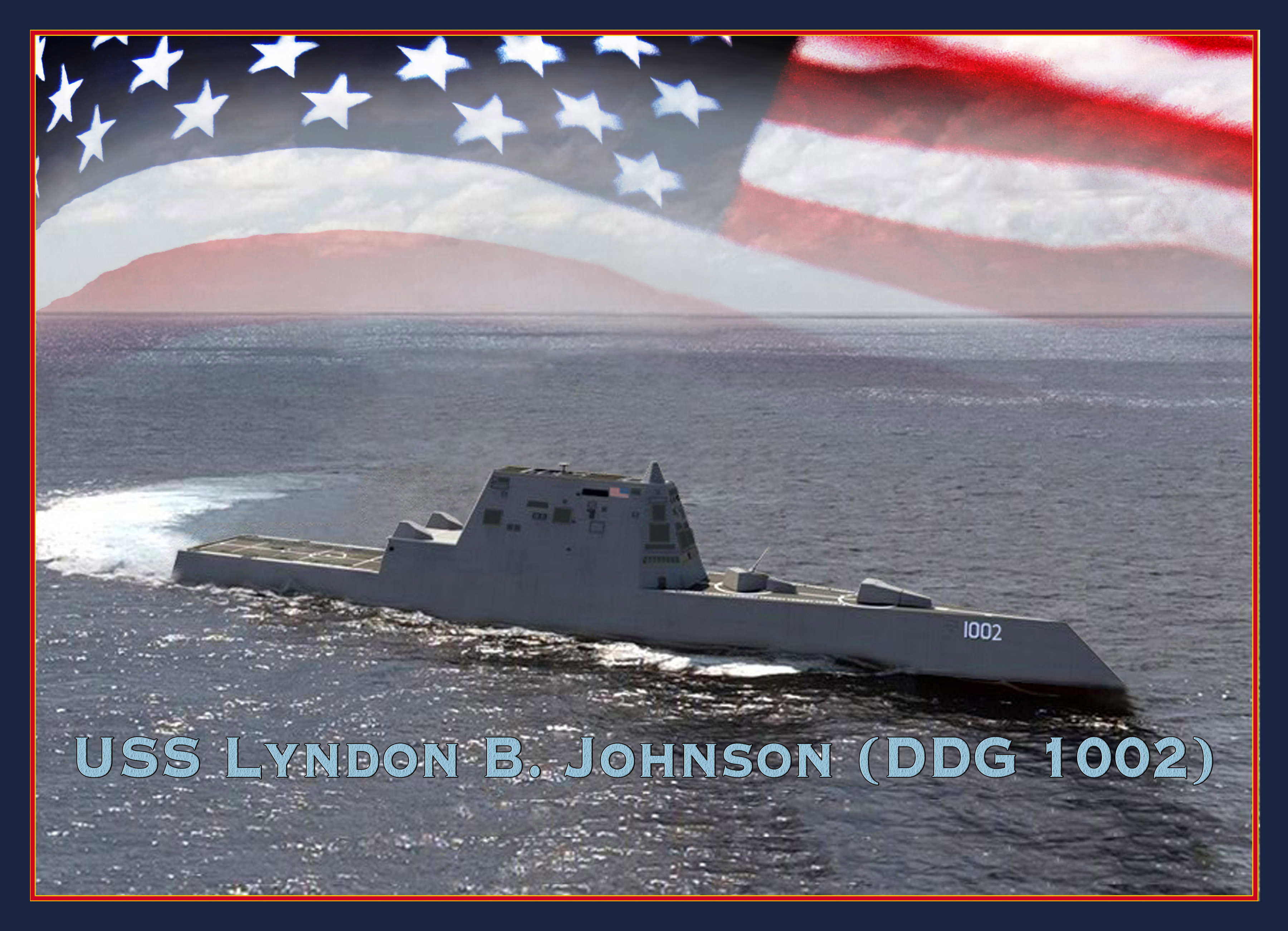 WASHINGTON (April 16, 2012) An artist rendering of the Zumwalt-class guided-missile destroyer USS Lyndon B. Johnson (DDG 1002). (U.S. Navy photo illustration by Lt. Shawn Eklund/Released)